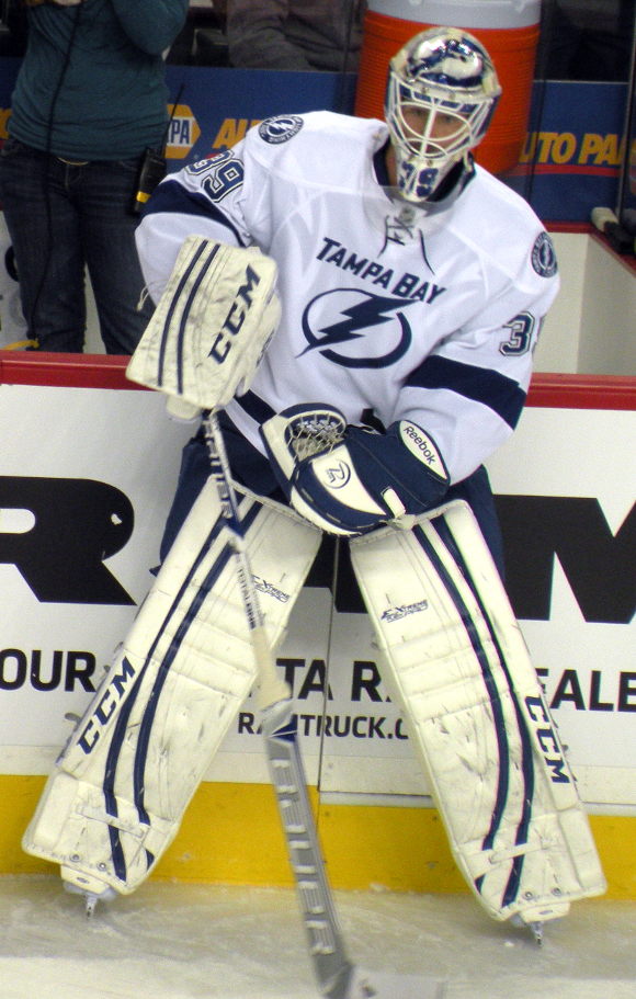 Tampa Bay Lightning goaltender Anders Lindbäck prior to a National Hockey League game in Calgary